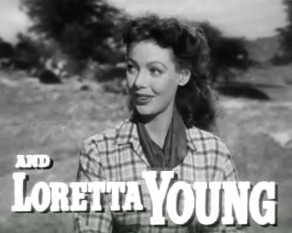 Cropped screenshot of Loretta Young from the trailer for the film Along Came Jones